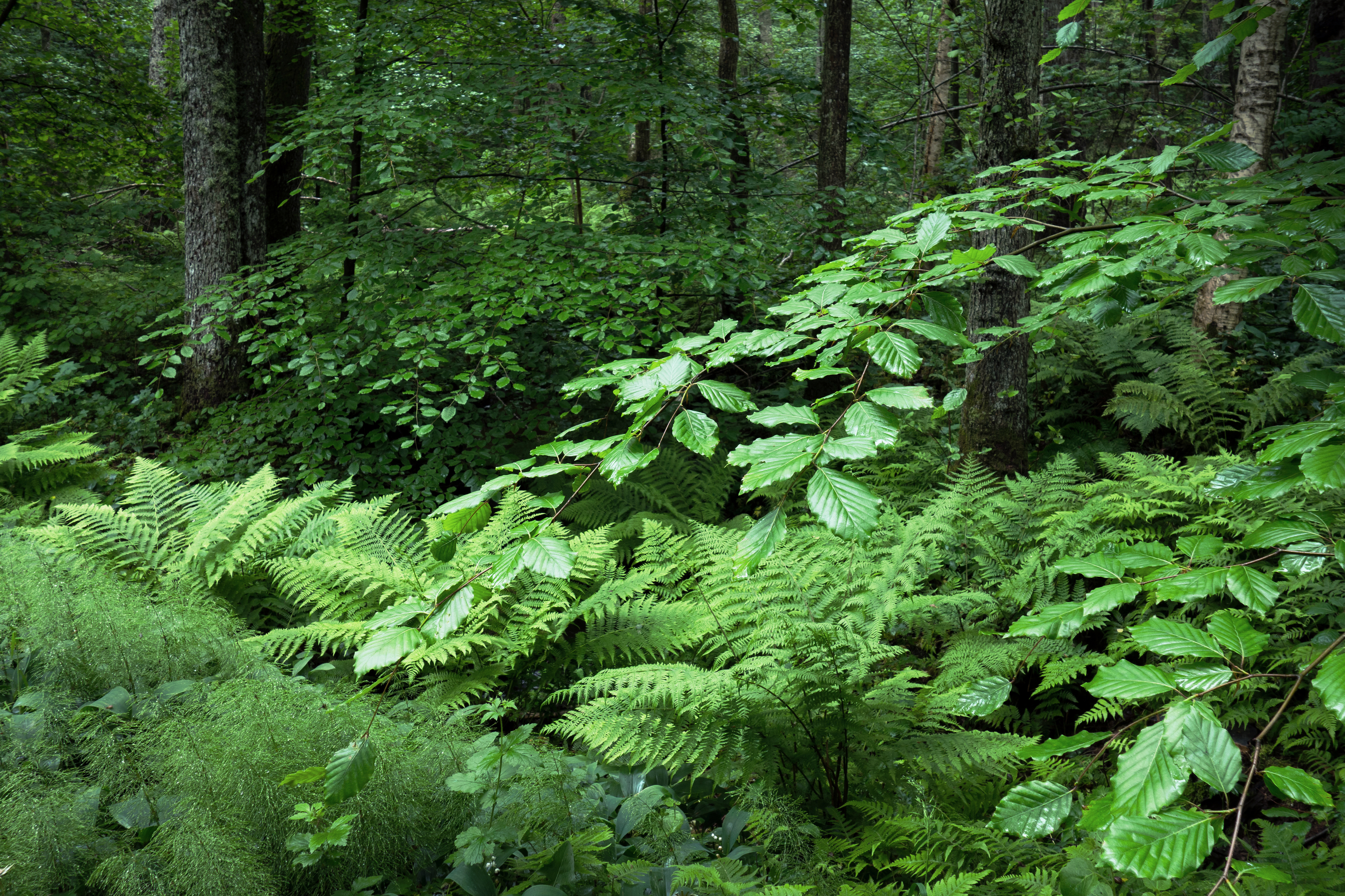 Beech (Fagus sylvatica), ostrich ferns (Matteuccia struthiopteris) and wood horsetail (Equisetum sylvaticum) in Gullmarsskogen nature reserve, Lysekil Municipality, Sweden.